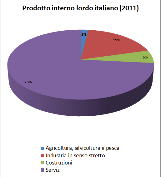 Italian GDP (2011) by national accounts branch